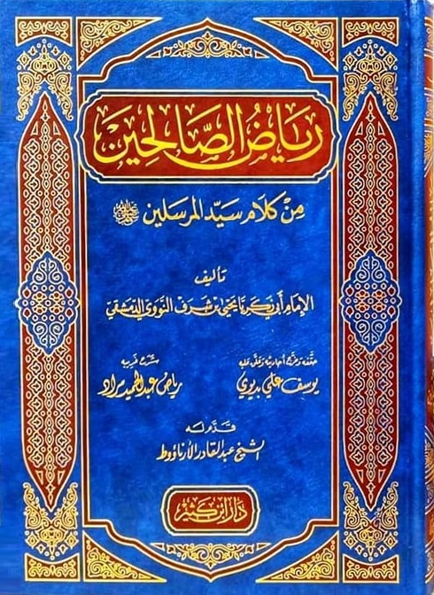 صورة كتاب رياض الصالحين للإمام النووي